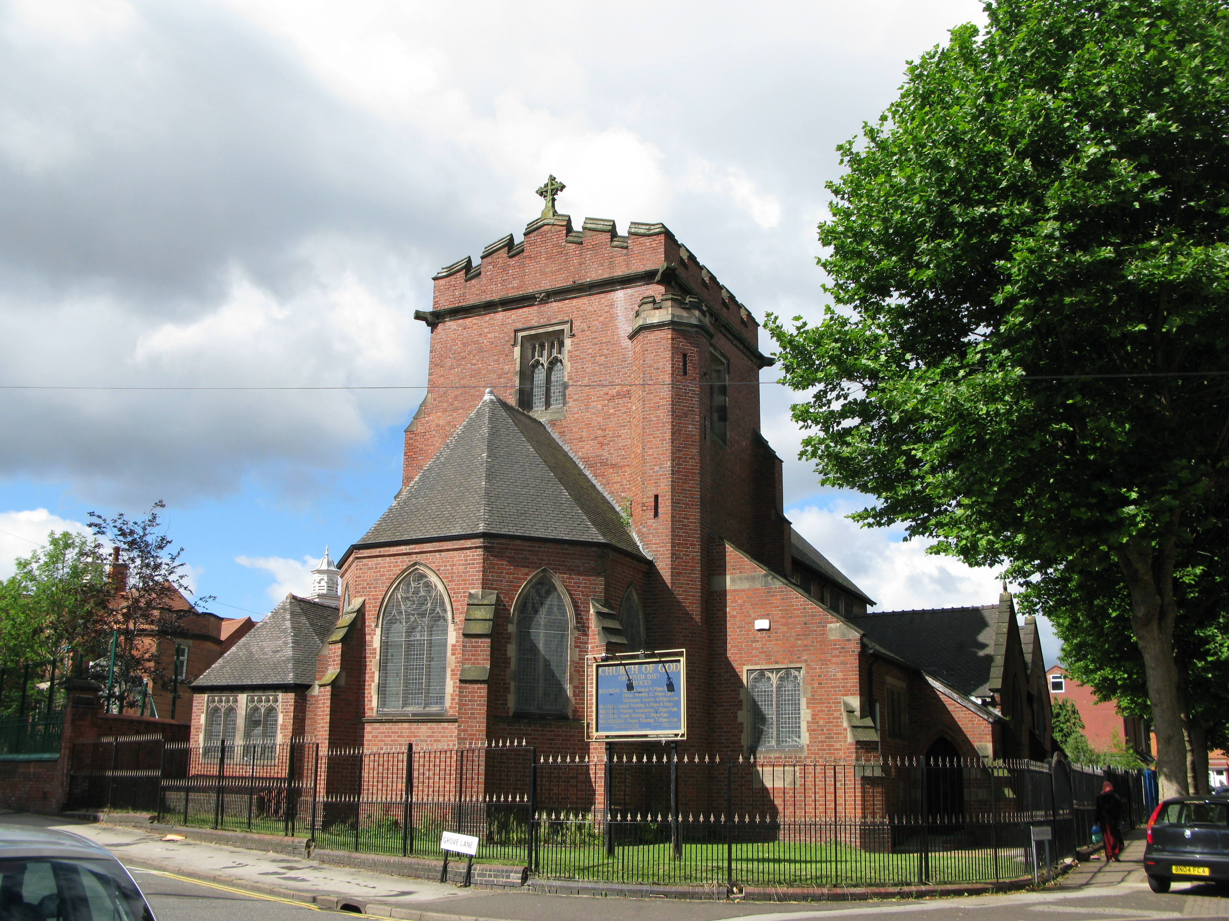 Grade II